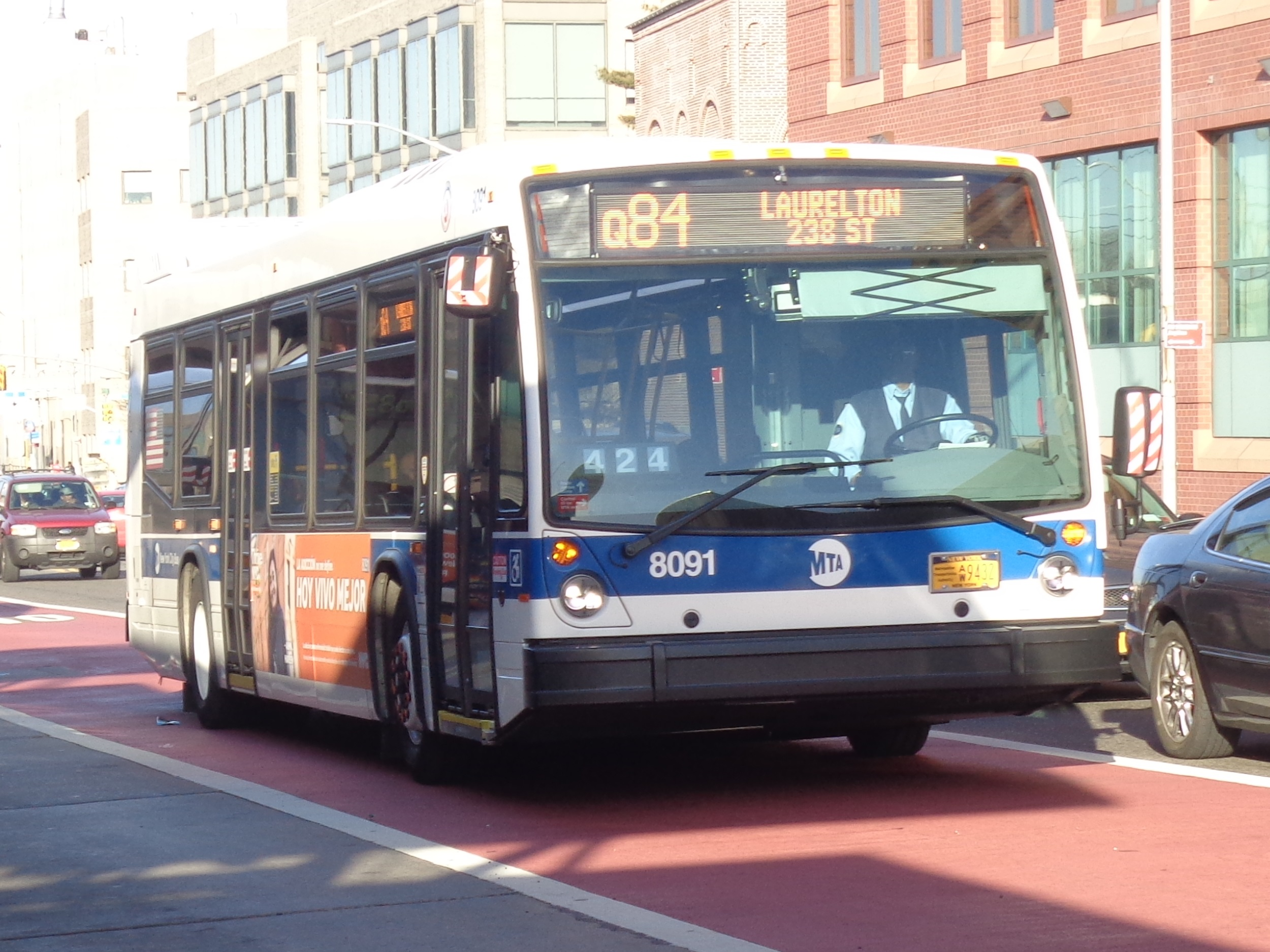 A Laurelton-bound Q84 bus at the Jamaica Center Bus Terminal in Jamaica Queens.